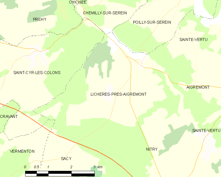 Map of French municipality Lichères-près-Aigremont